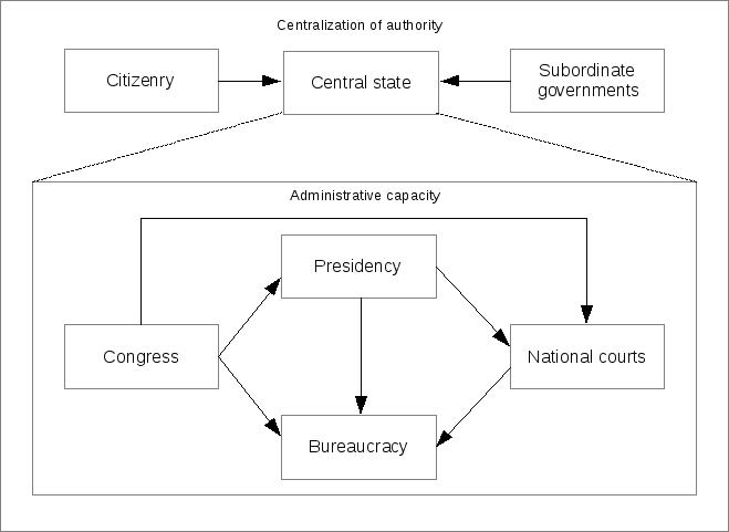 Richard Franklin Bensel, Yankee Leviathan: The Origins of Central State Authority in America, 1859-1877. Cambridge University Press, 1991. (Fig 3.1). The directionality of the arrows denotes degree of "statist-ness."